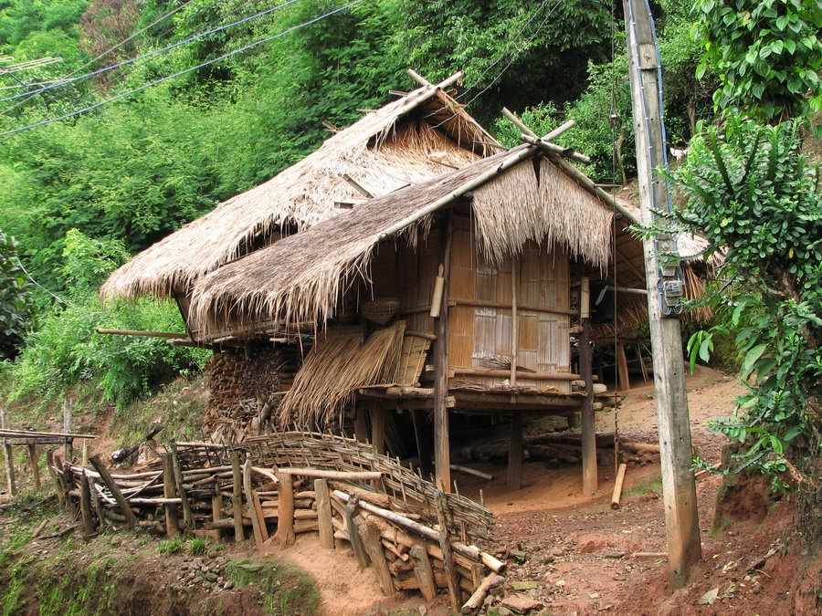 An Akha hut made from Bamboo in a village near Chiang Rai, Thailand.